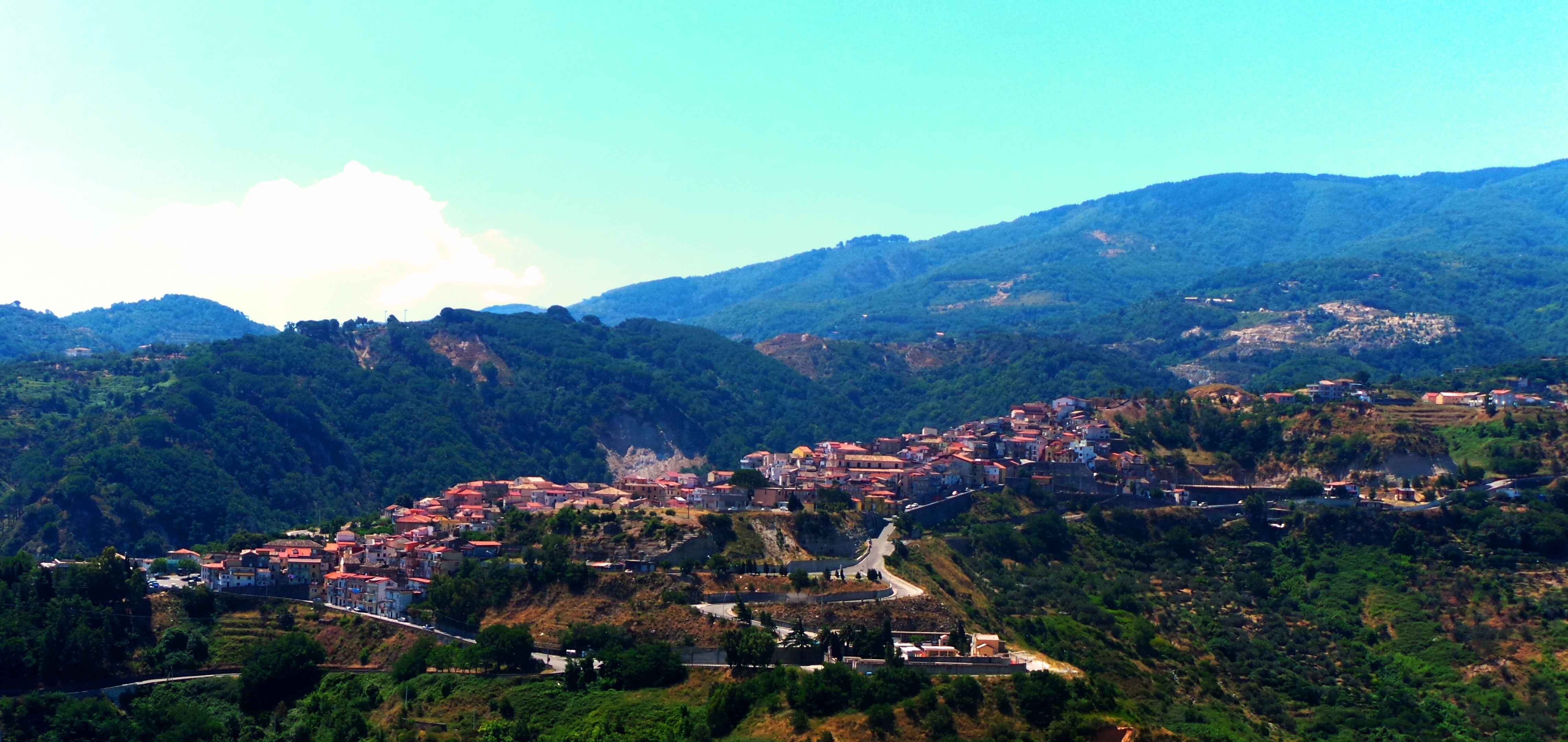 Vista di Satriano cz